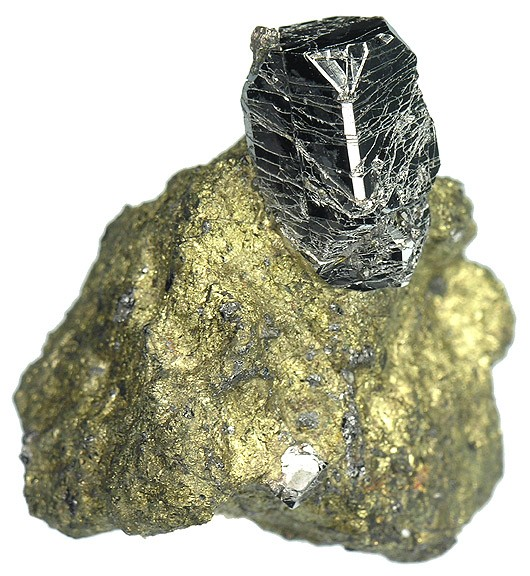 Sperrylite Locality: Talnakh Cu-Ni Deposit, Noril'sk, Putoran Plateau, Taimyr Peninsula, Taymyrskiy Autonomous Okrug, Eastern-Siberian Region, Russia (Locality at ) Size: 2.6 x 2.4 x 1.8 cm. This piece features a 1.1 cm elongated cube of Sperrylite with amazingly high luster and very sharp faces. The crystal is flaring off a Chalcopyrite matrix. Ex. Bryan Lees Collection.